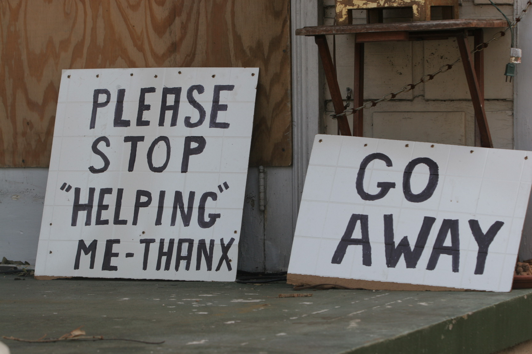 Signs posted in front of a house post-Katrina.